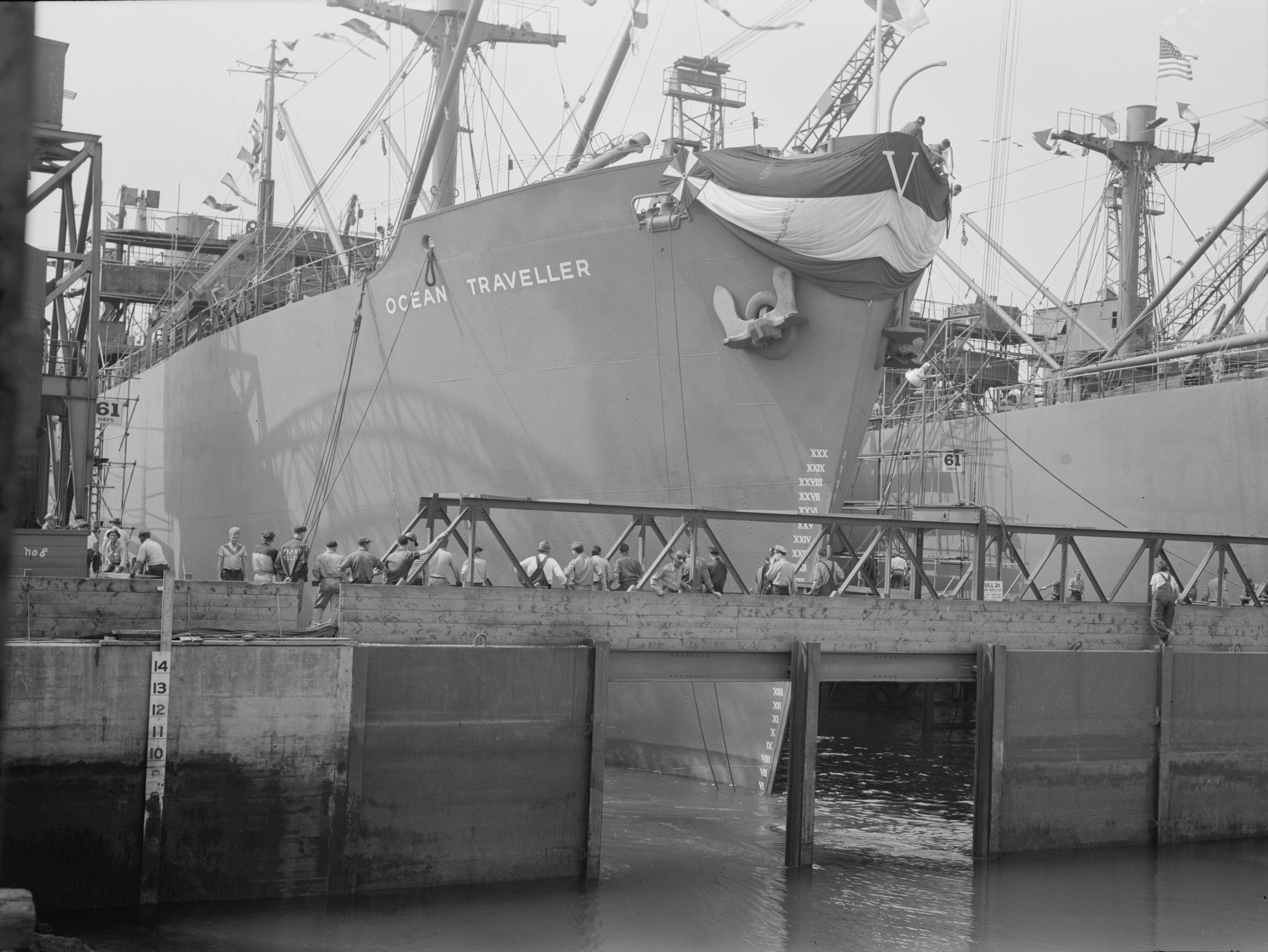 Ship launching in Portland, Maine. Bearing a huge "V" for victory, Ocean Trailer, one of eight ships launched at a New England yard on August 16, 1942, is ready to slide into the water. Five of the ships were built for Britain under lend-lease